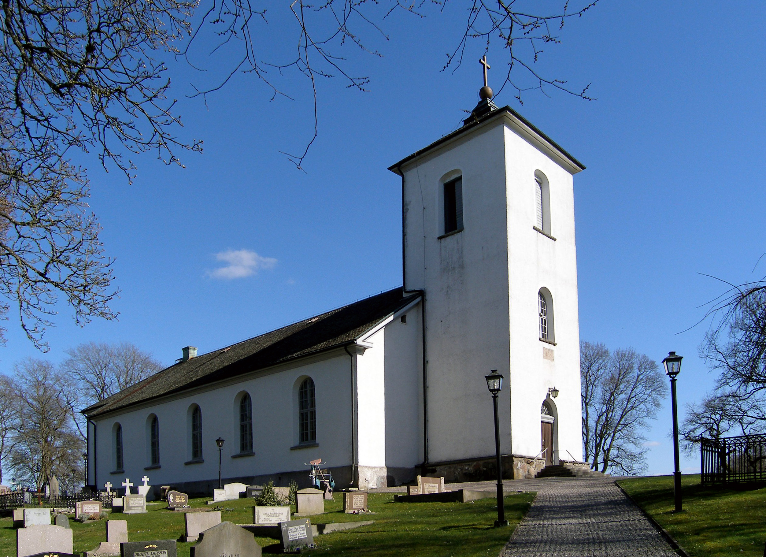 Järpås church, Diocese of Skara, Sweden.